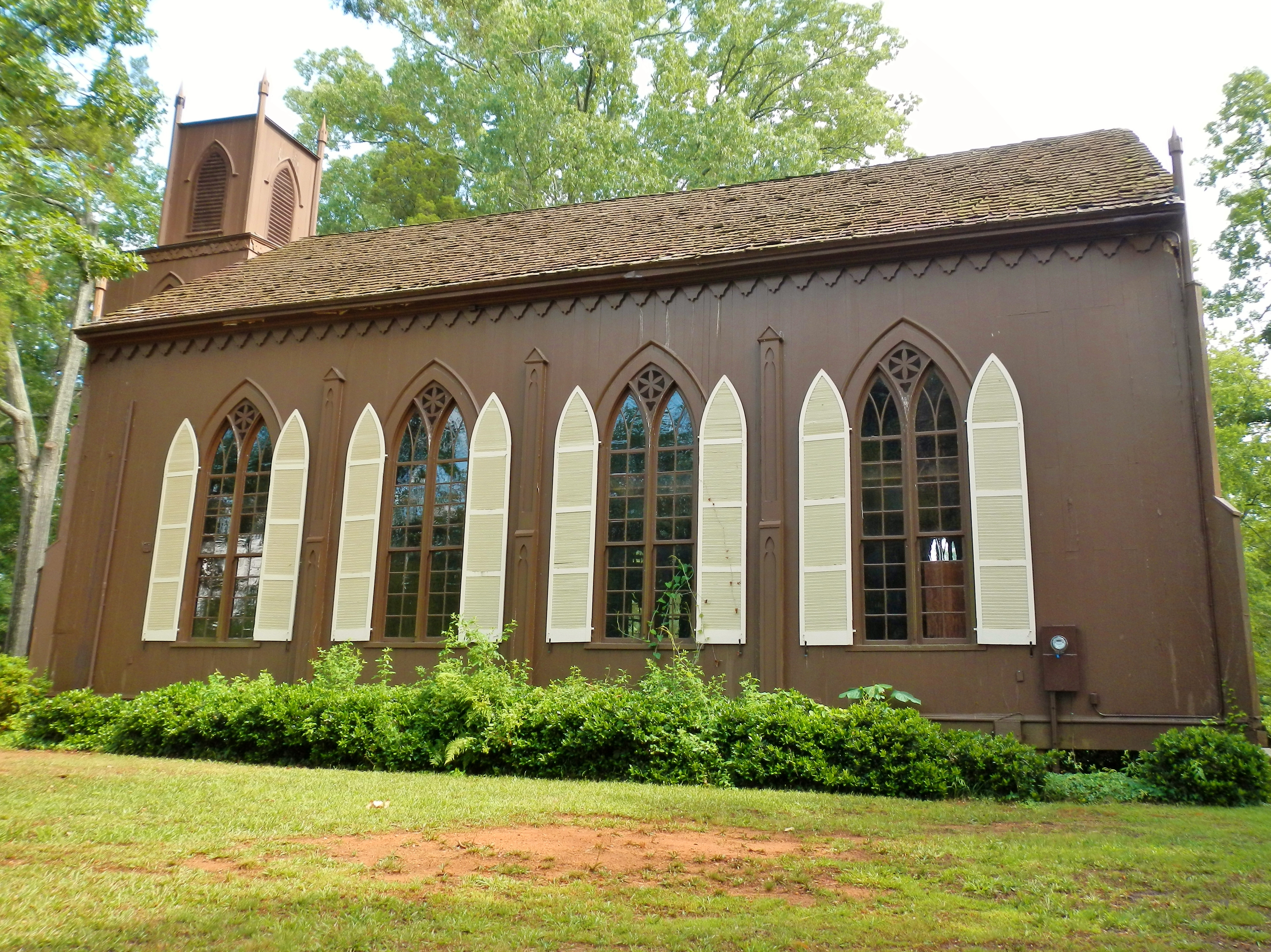 This is a photo of Zion Episcopal Church in Talbotton, GA. It is listed on the NRHP.